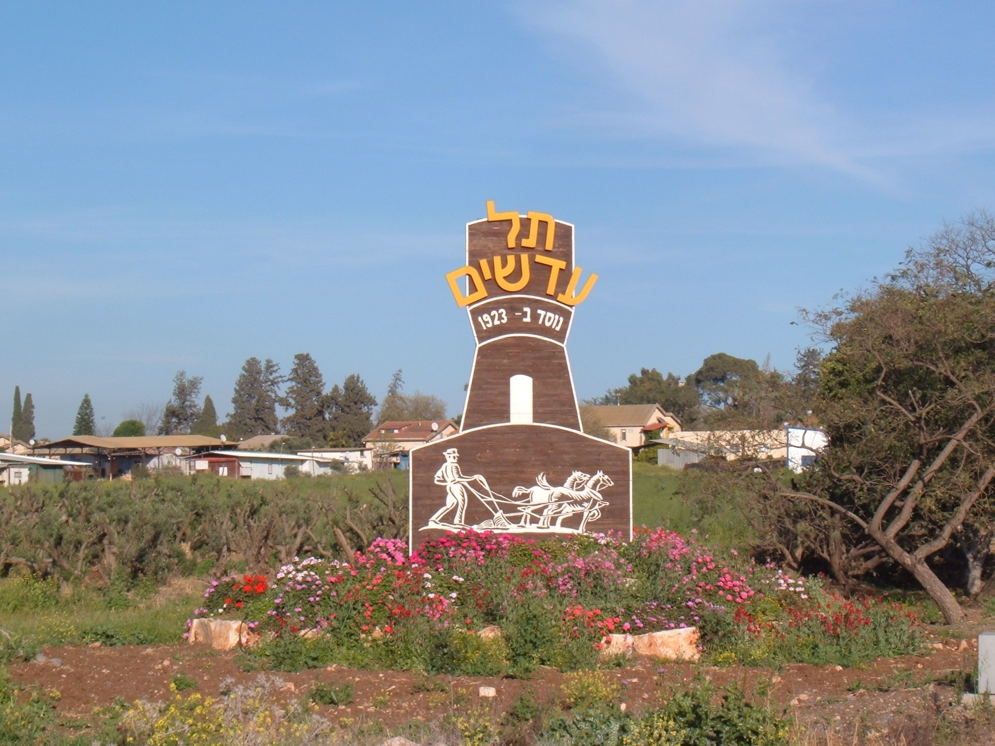 Tel Adashim תל עדשים